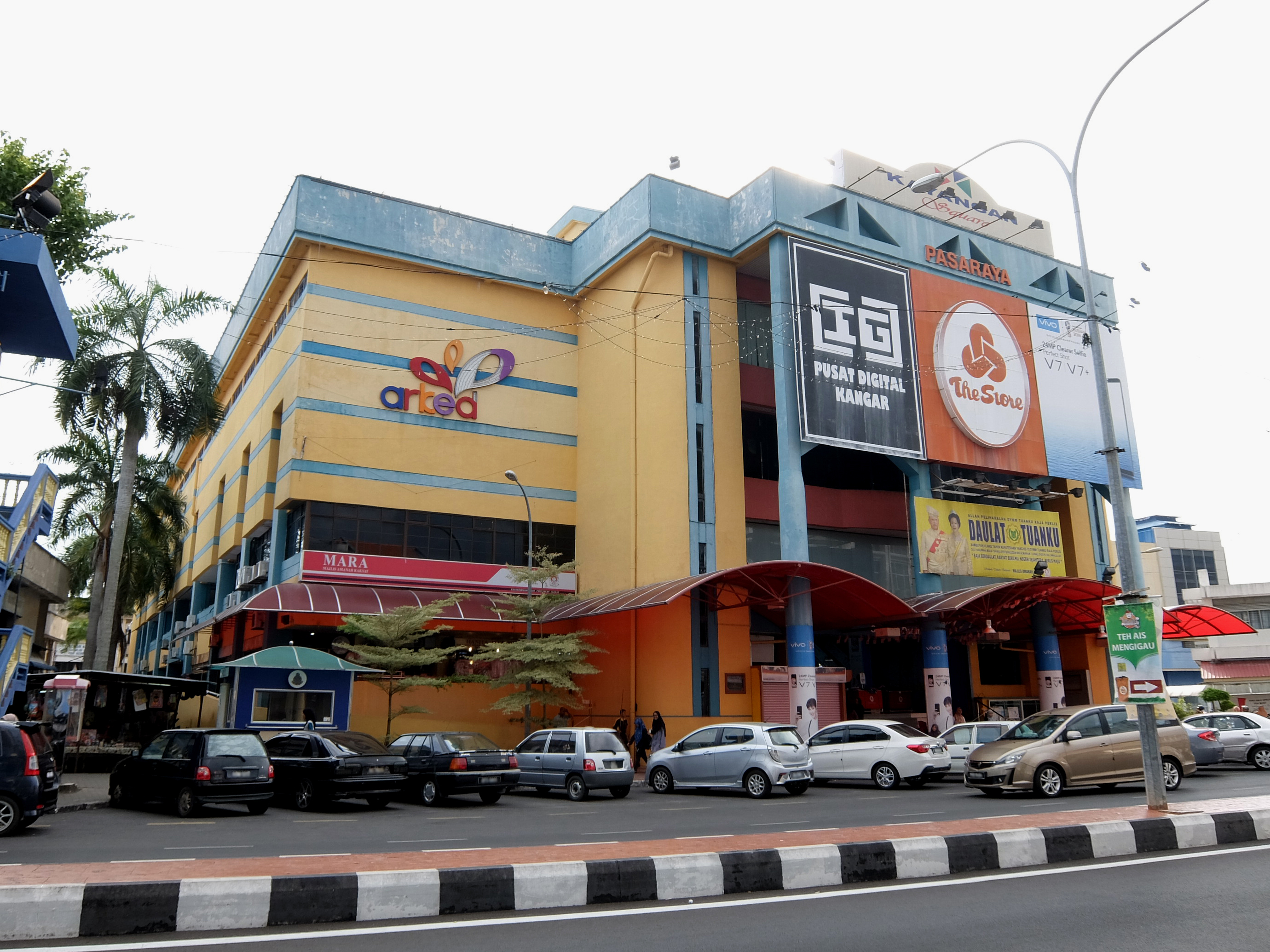 Kayangan Square, Kangar, Perlis, Malaysia